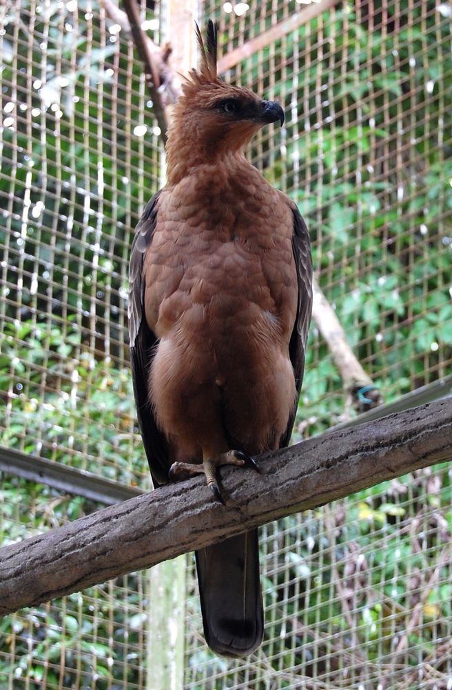 Javan hawk-eagle Nisaetus bartelsi. Ragunan Zoo, Jakarta.